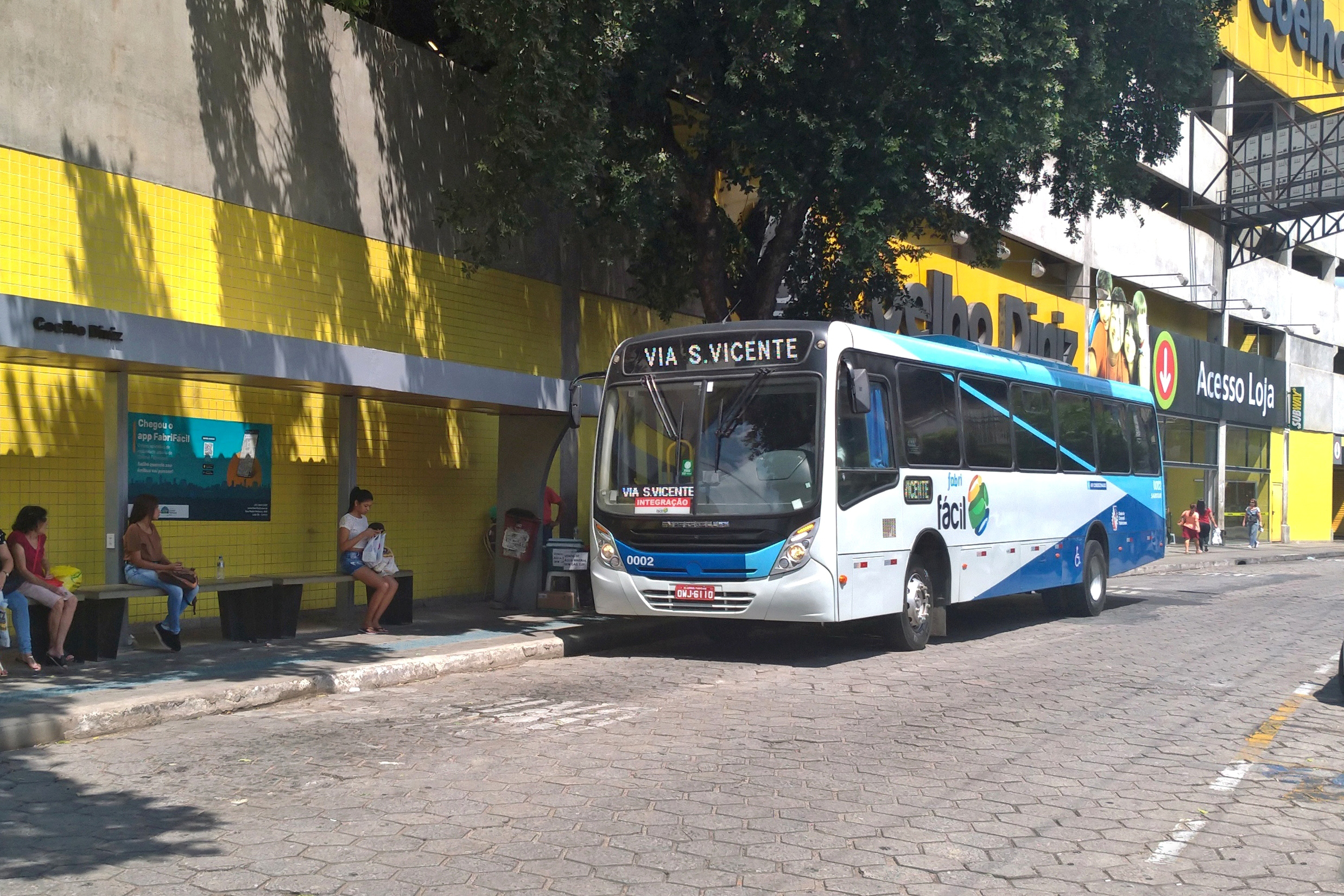 Neobus Mega Plus 2013 (reg. OWJ-6110, #0002) of the Saritur (line Centro–Sílvio Pereira II via São Vicente) with Mercedes Benz OF-1724 chassis in a bus stop in the Maria Mattos Street, in Coronel Fabriciano, Minas Gerais, Brazil.